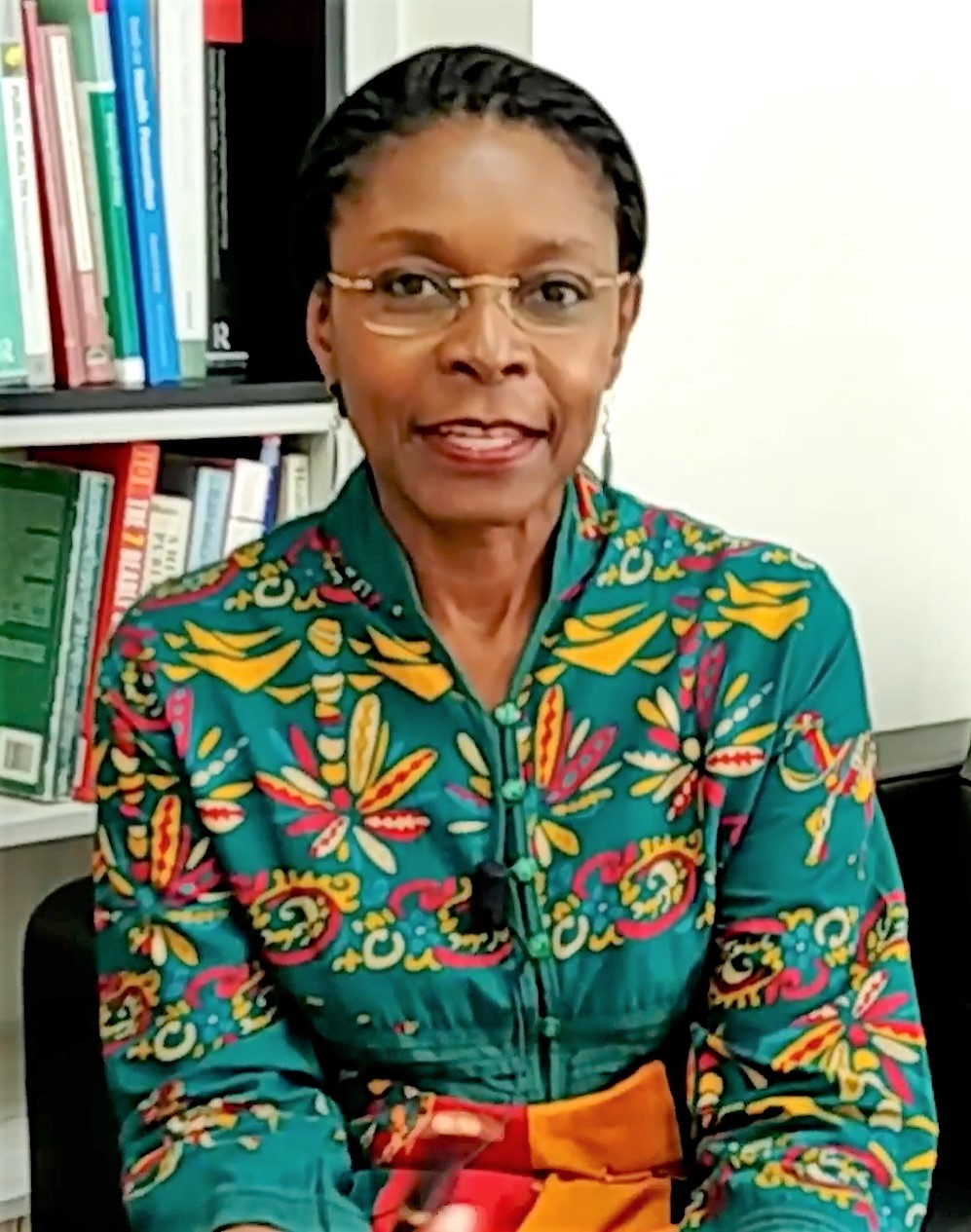 Prof. Pascale Allotey: 'Reach and Turn' Malaysia 2018